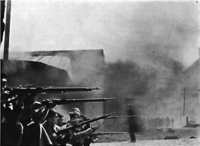 Armenians fighting in the region of the burning tatar bazar at baku march days 1918 of the March Days.